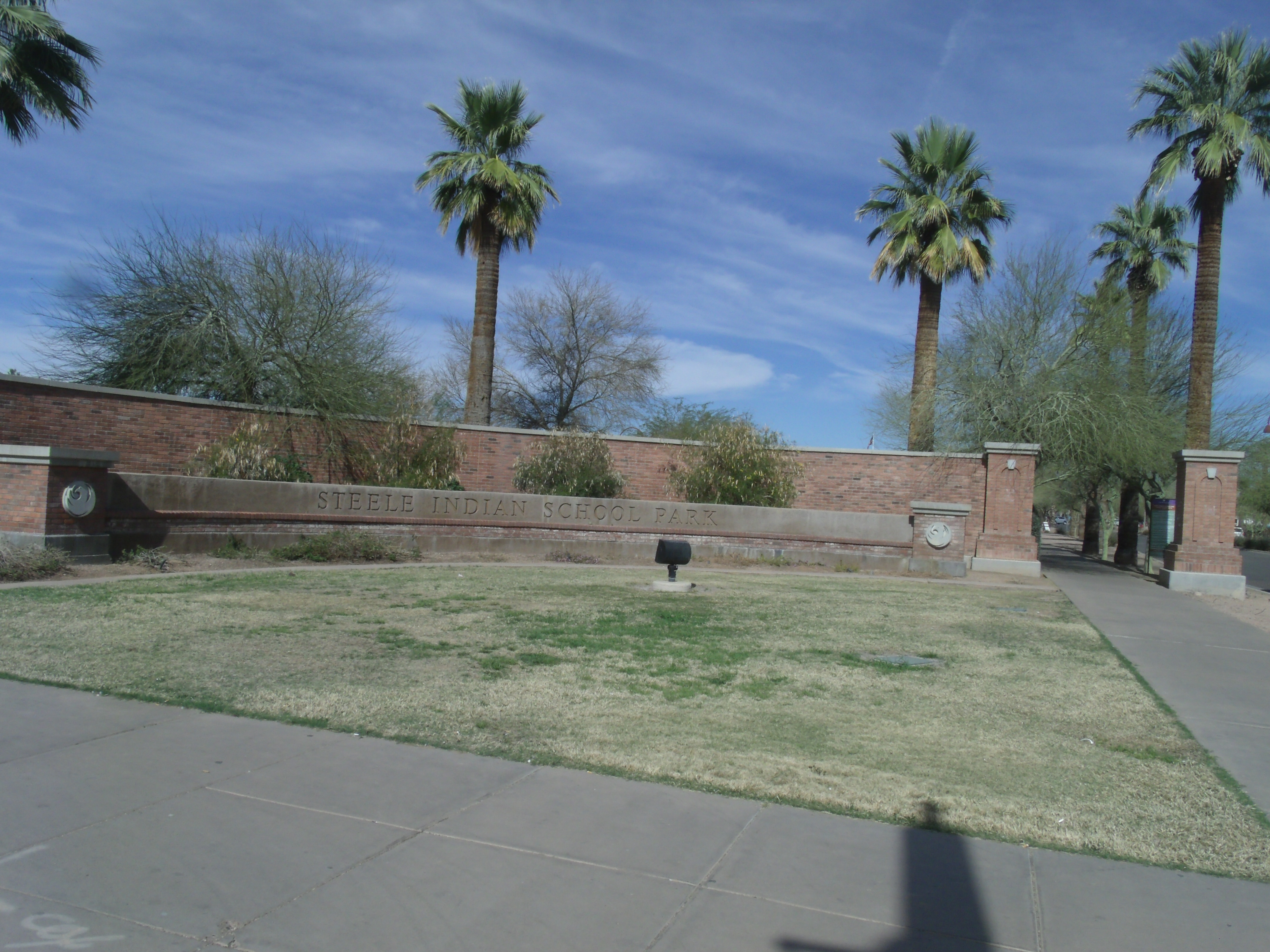 The main entrance of Steele Indian School Park . The recreational park is located at 300 E. Indian School Rd. (3rd St. and Indian School Road). There are three historical buildings in the compounds of the park, among them the Phoenix Indian School building which is listed in the National Register of Historic Places.